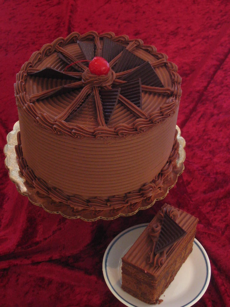 Our most popular cake. Of course anything chocolate!